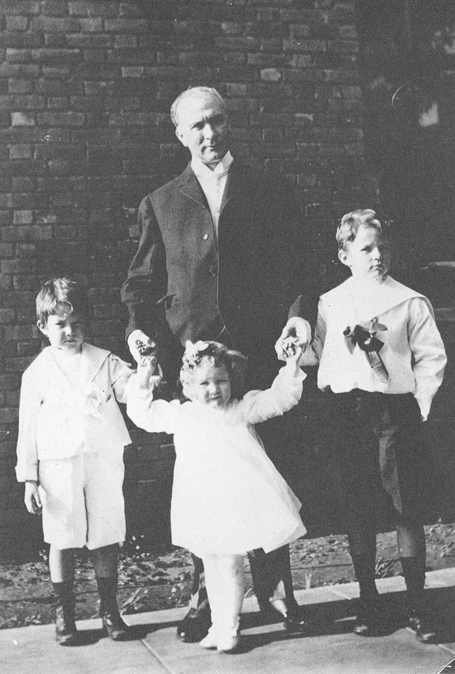 from Bixby Collection